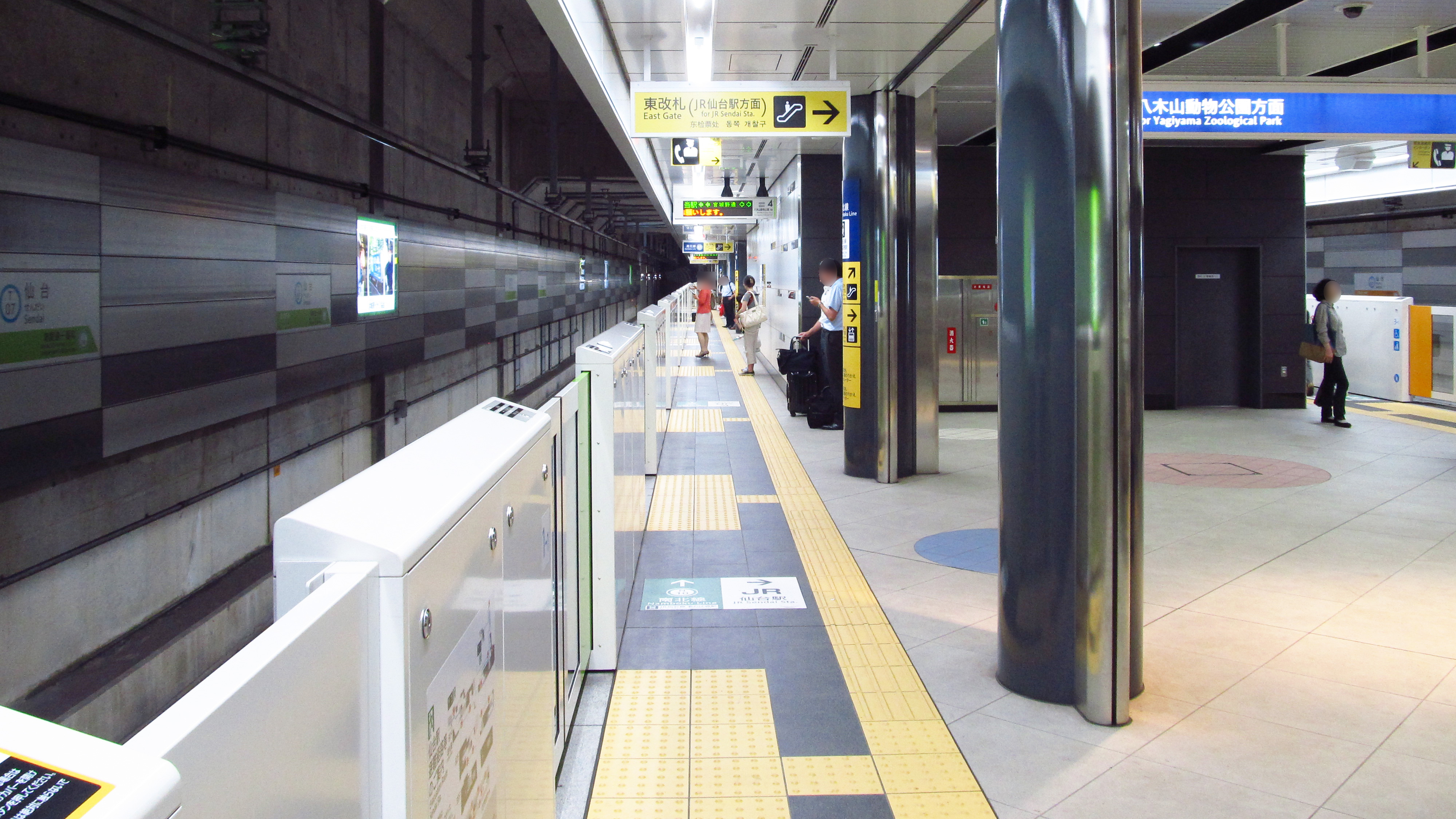 The platform at Sendai Station on Sendai Subway Tōzai Line in Aoba-ku, Sendai, Japan